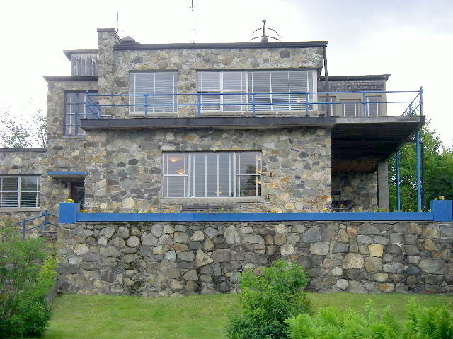 Wilhelm Reich home, laboratory and school. Now a museum in Rangeley, Maine